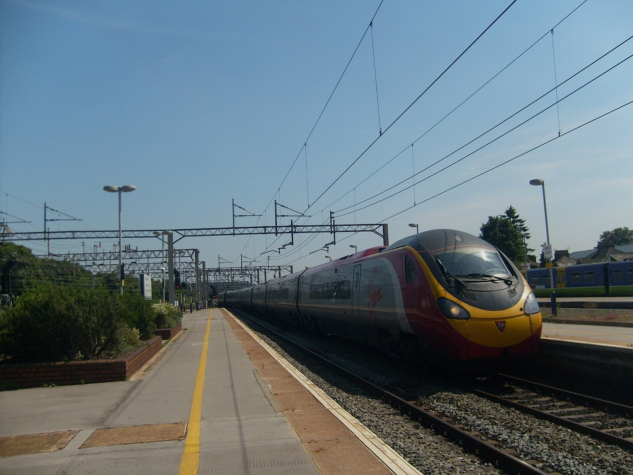 Virgin Trains Class 390 Pendolino No. 390001 'Virgin Pioneer' arriving at Watford Junction.